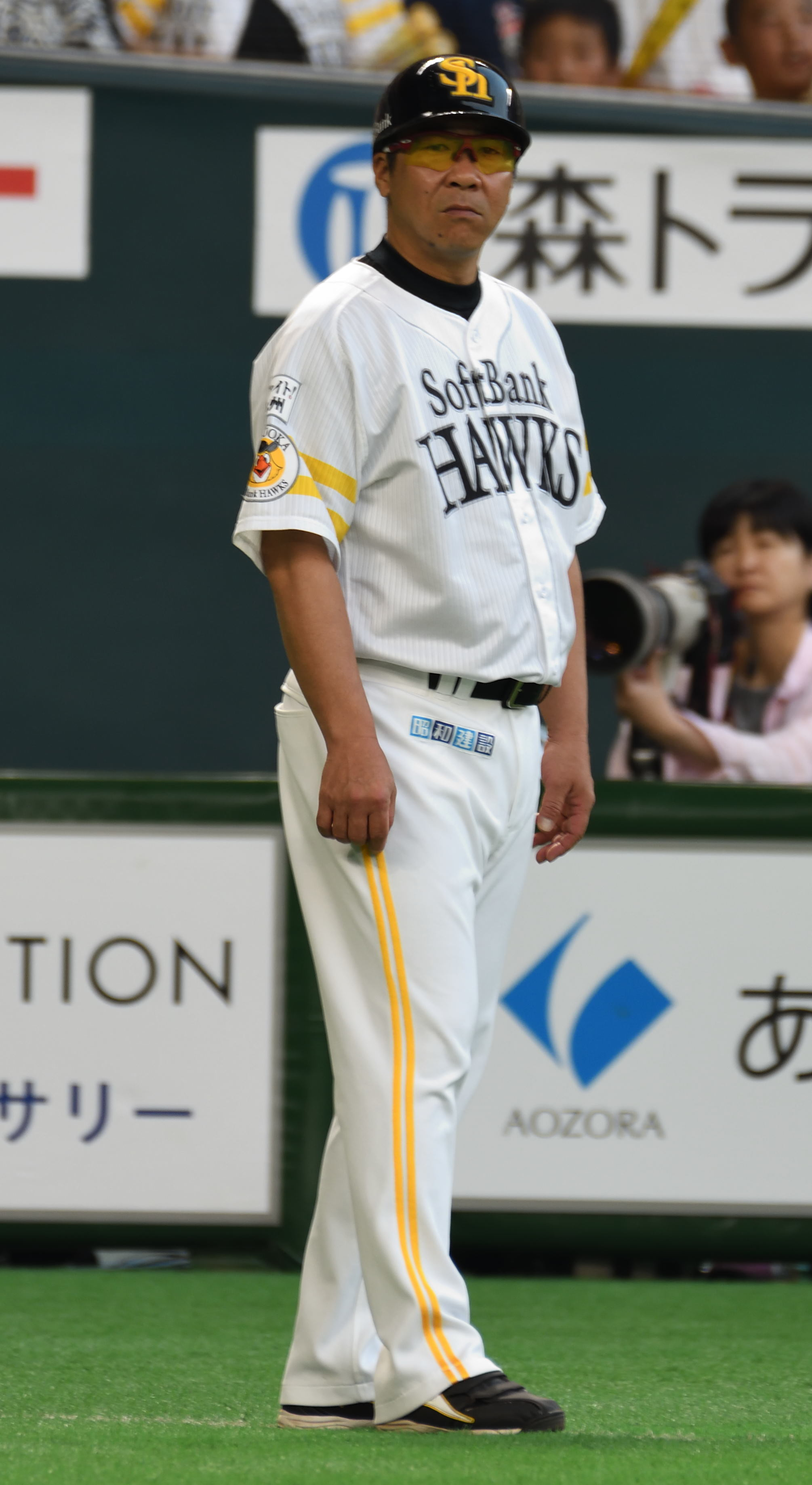 Tetsuya Iida, coach of the Fukuoka SoftBank Hawks, at Fukuoka Dome